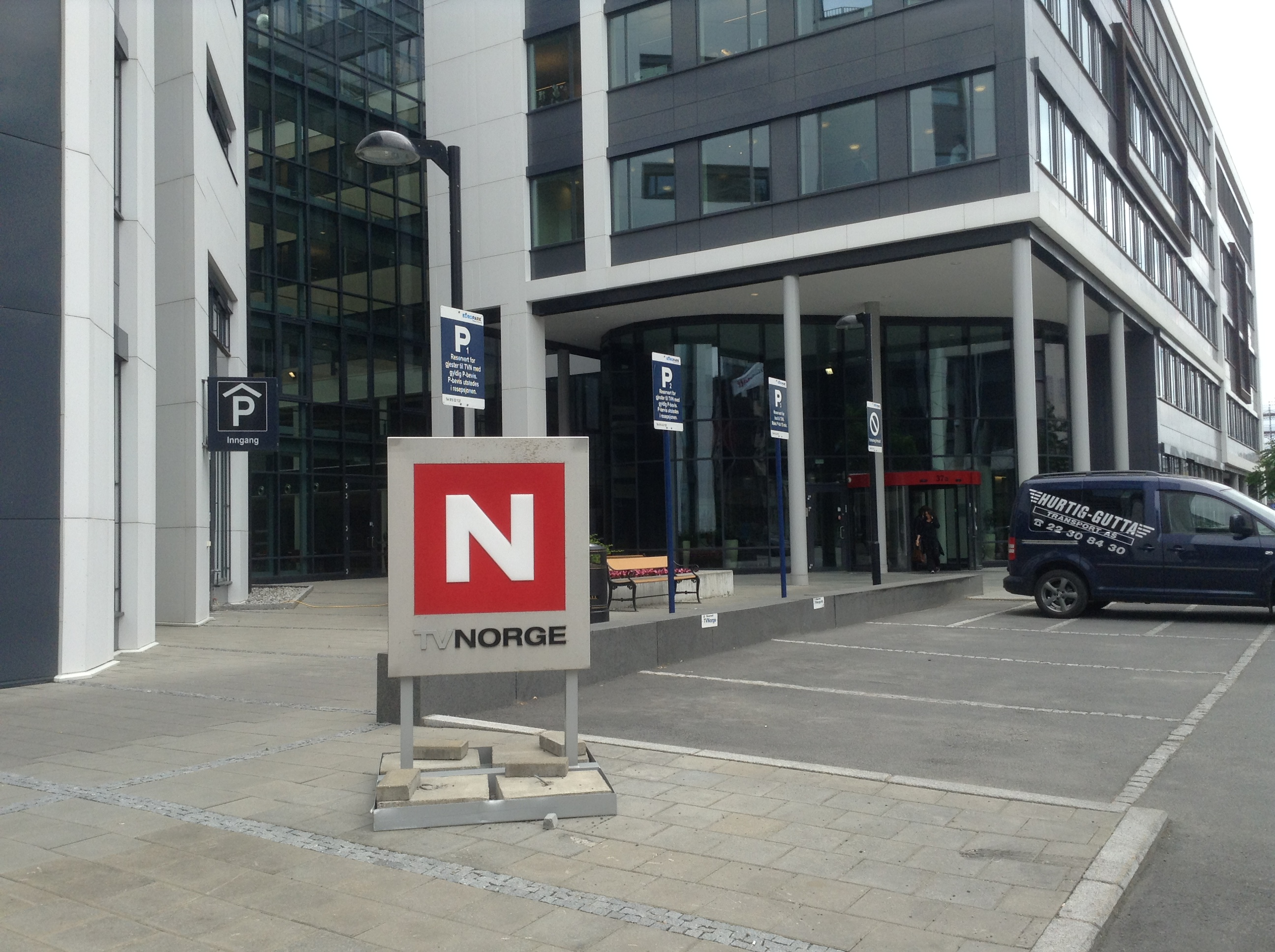 TVNorge headquarters